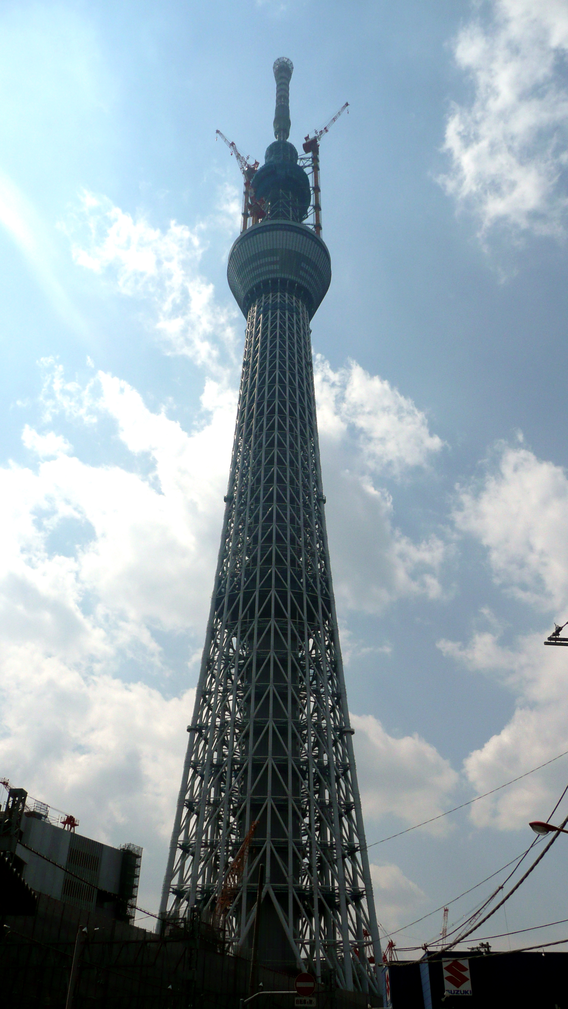 Tokyo Sky Tree